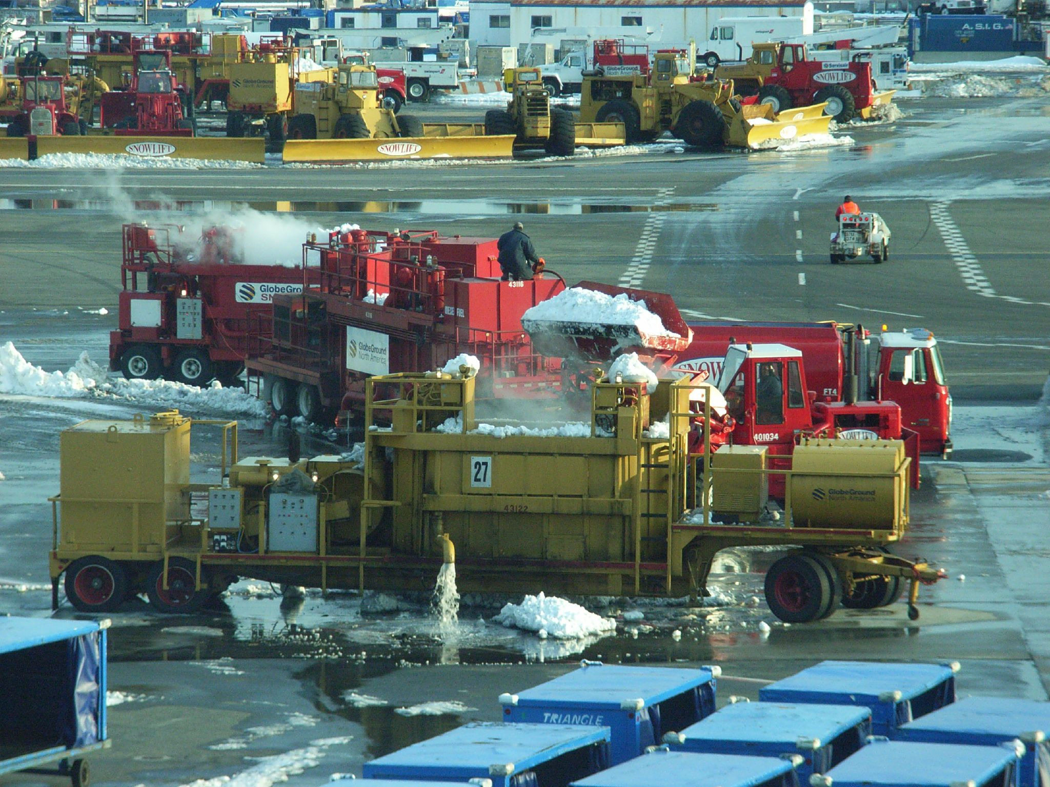 A snow melter working at JFK Airport.Snow Destruction, JFK Airport